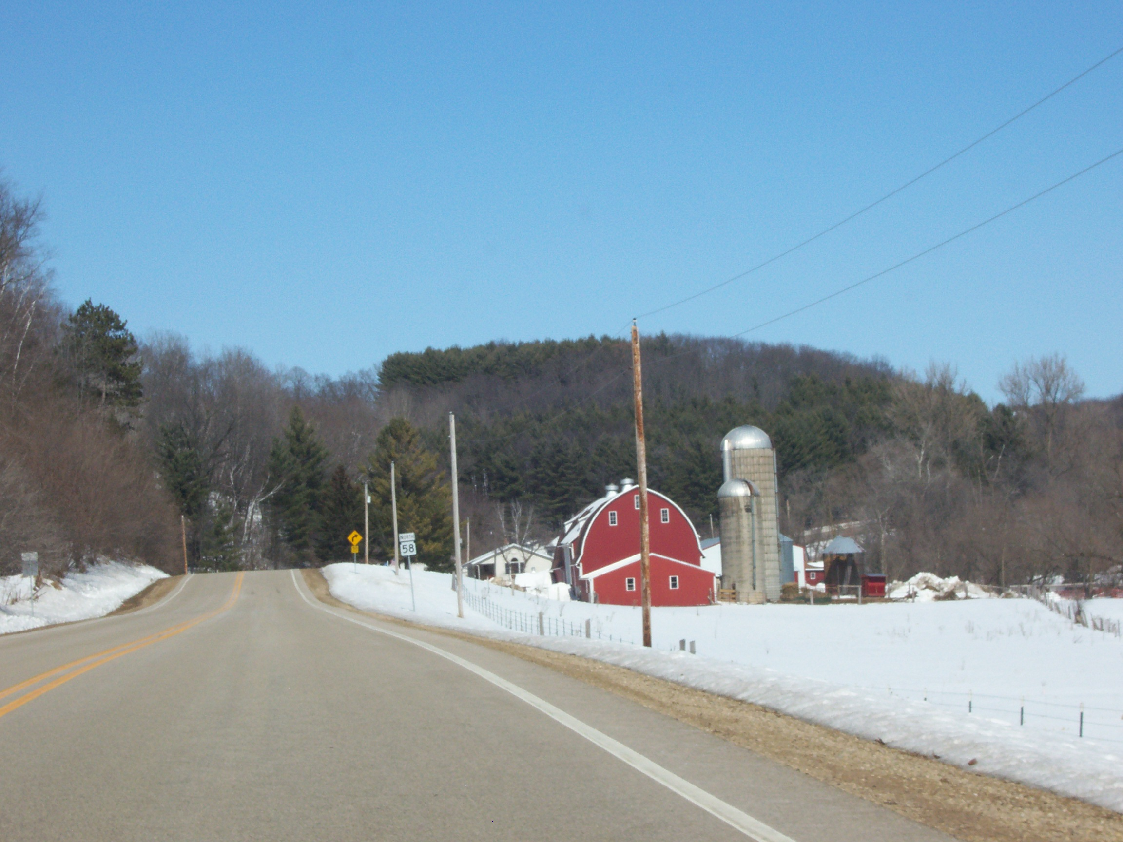 A farm in Richland County, Wisconsin, USA. Located on Wisconsin Highway 58 near Cazenovia. Taken March 11, 2007 by myself.